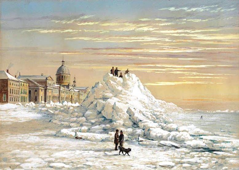 Ice pile in Front of the Market Building, Montreal, Quebec, circa 1854. Watercolour : watercolour and gouache over pencil on wove paper.